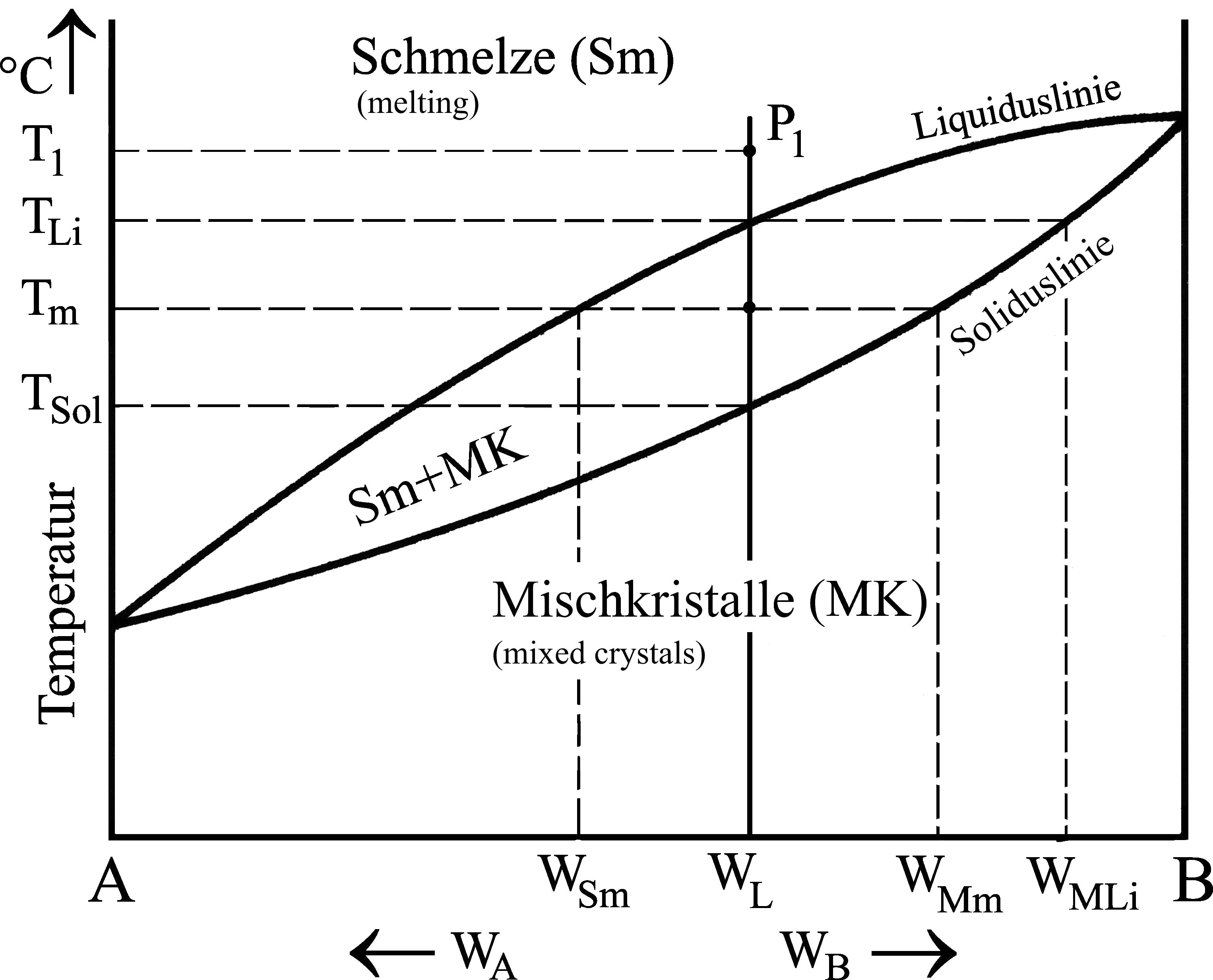 alloy - diagram mixed crystal building